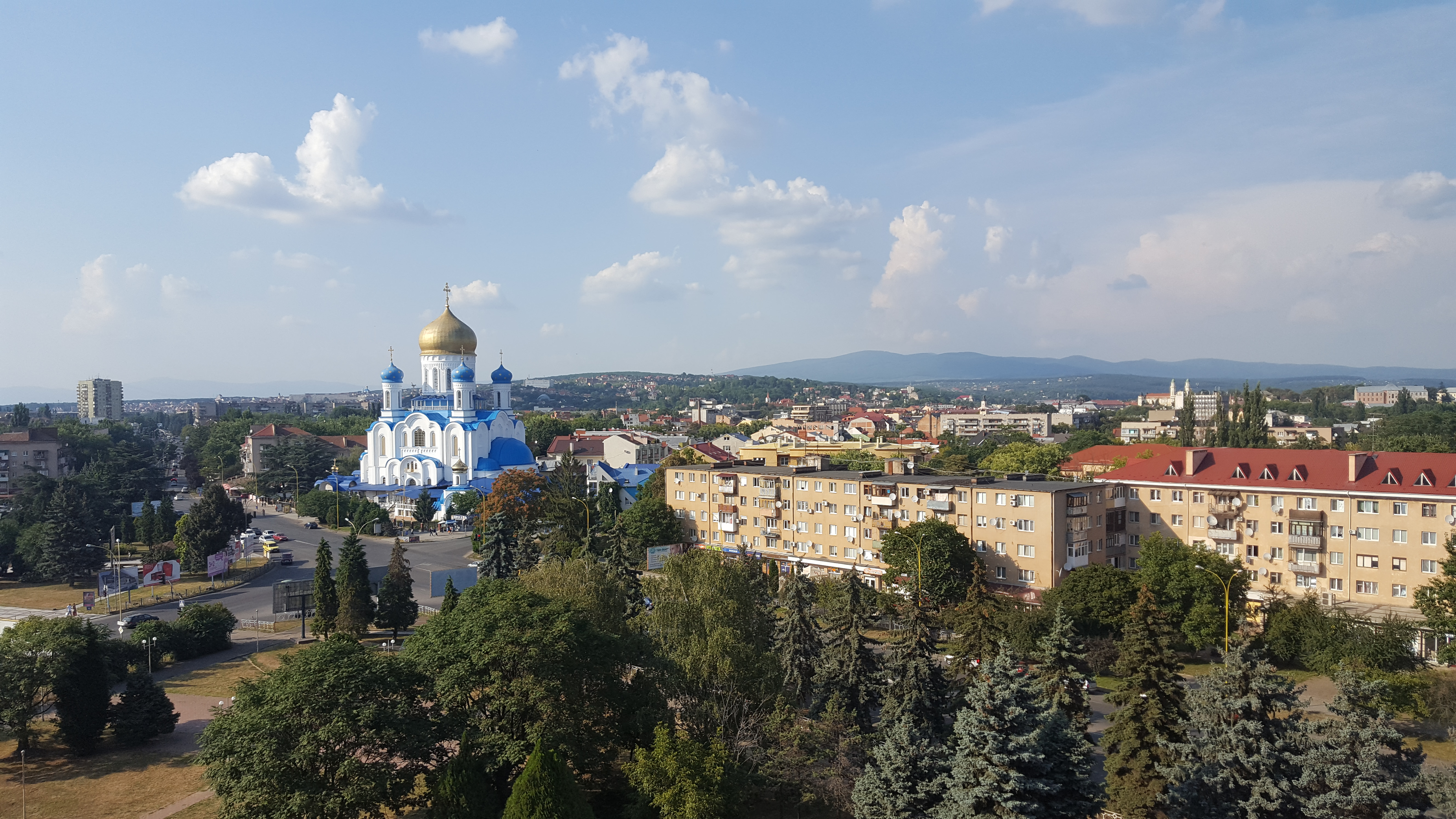 A panorama of Uzhhorod, as seen from the 8th floor of Intourist-Zakarpatye hotel. A modern Church of Christ the Saviour can be seen at the front left.